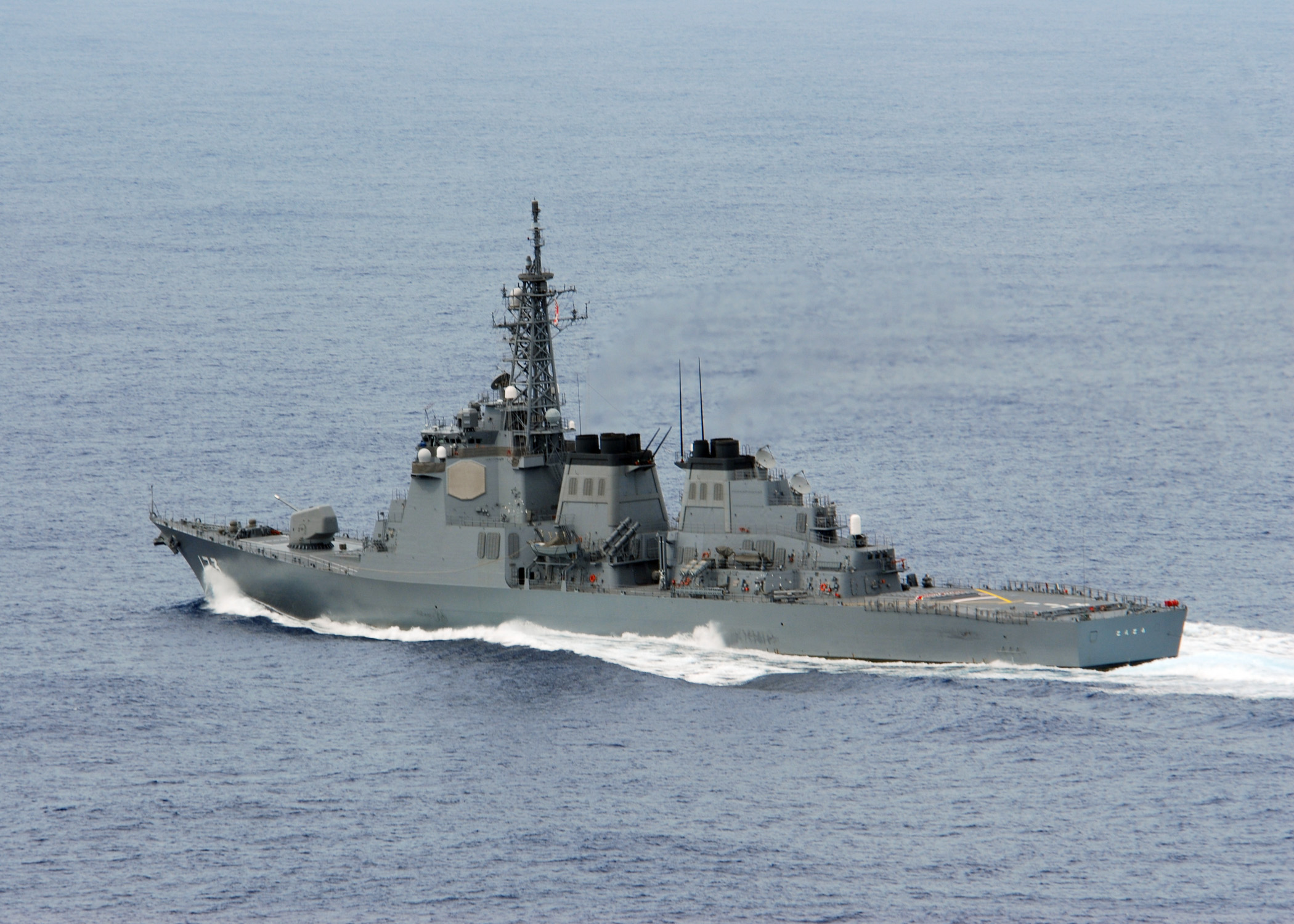 091113-N-1038M-043 PACIFIC OCEAN (Nov. 13, 2009) The Japan Maritime Self-Defense Force destroyer JDS Kongo (DDG 173) is underway in the Pacific Ocean. George Washington, the Navy's only permanently forward-deployed aircraft carrier, is participating in Annual Exercise (ANNUALEX 21G), a yearly bilateral exercise with the U.S. Navy and the Japan Maritime Self-Defense Force.